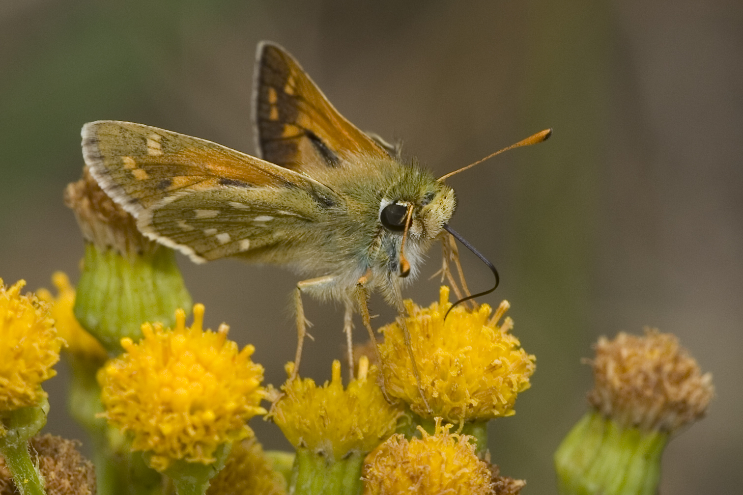 Hesperia comma